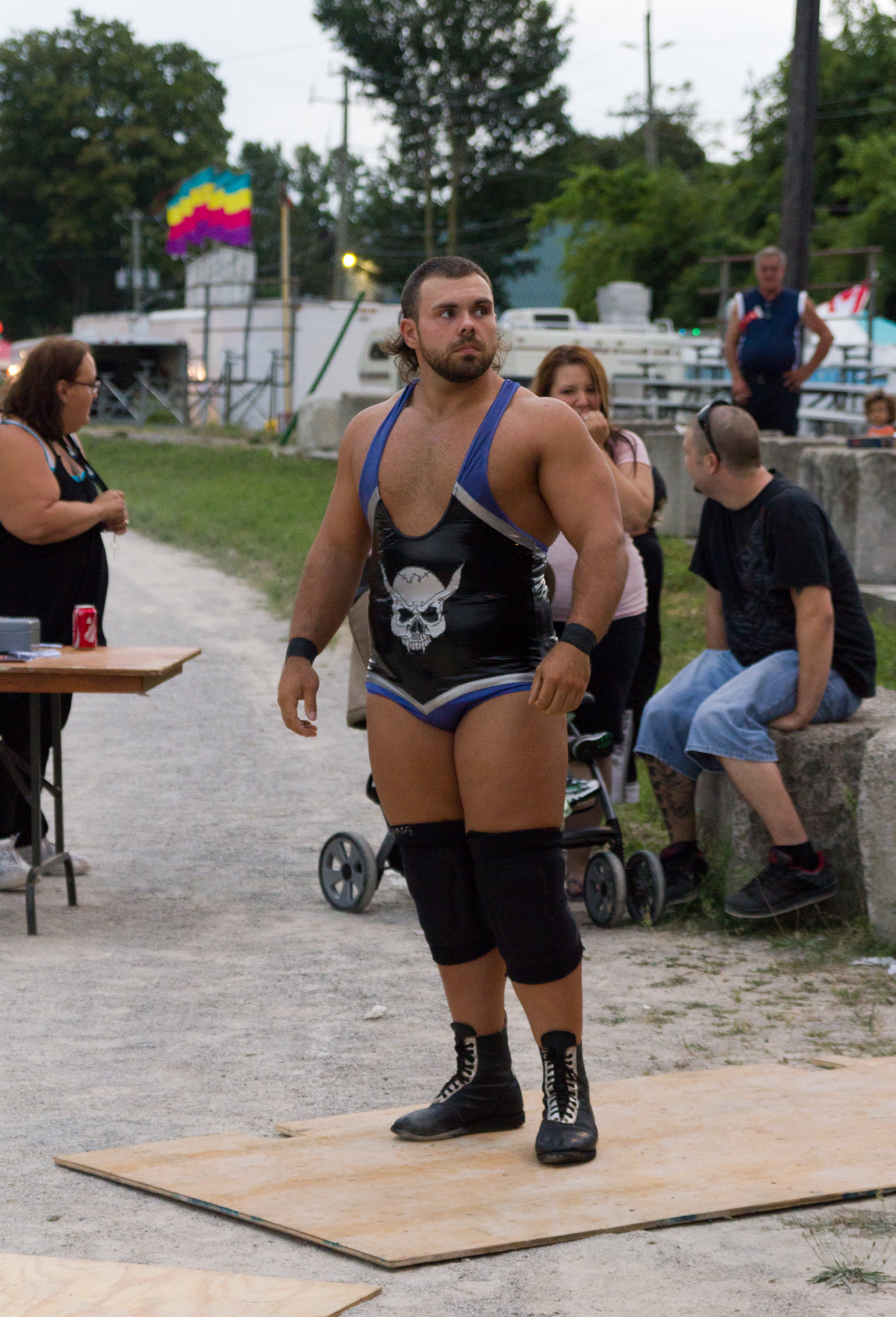 Michael Elgin at a CCW show on August 20, 2011, in Tilsonberg.